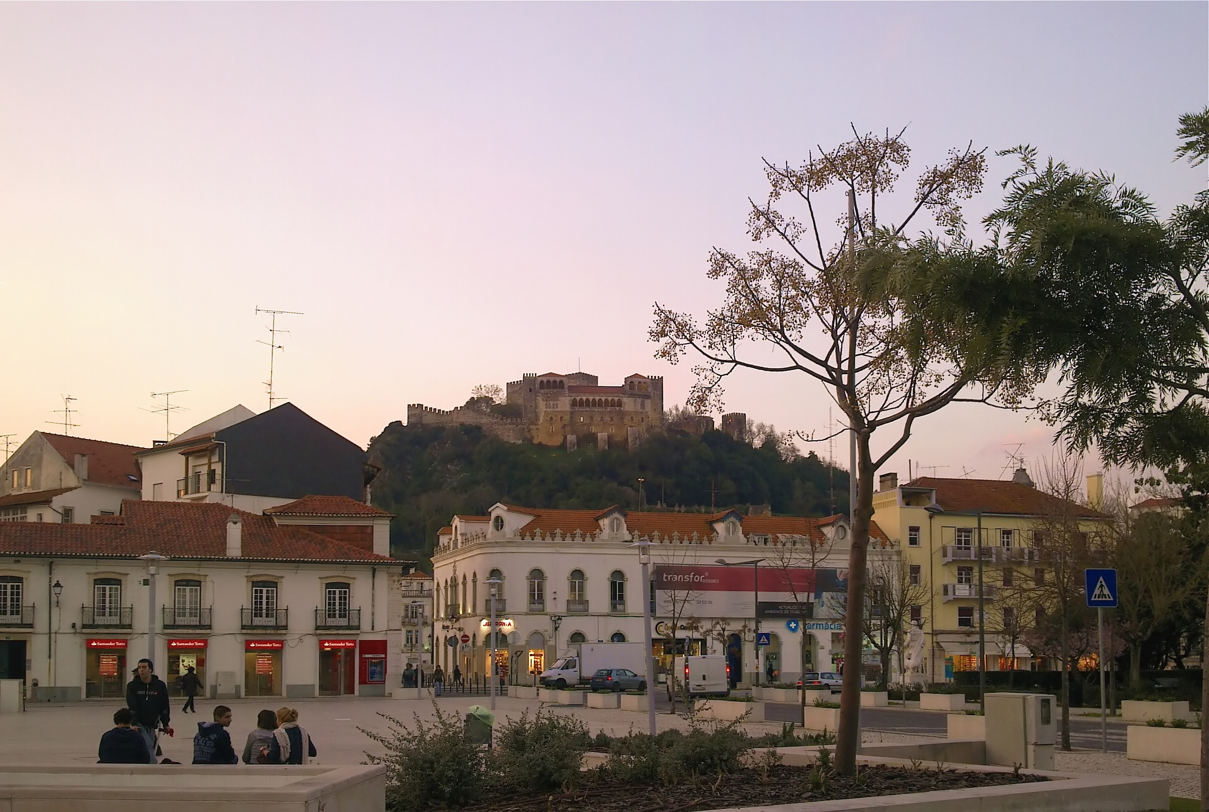 The castle of Leiria, Portugal, view from the city's centre Camera: Nokia 6700s